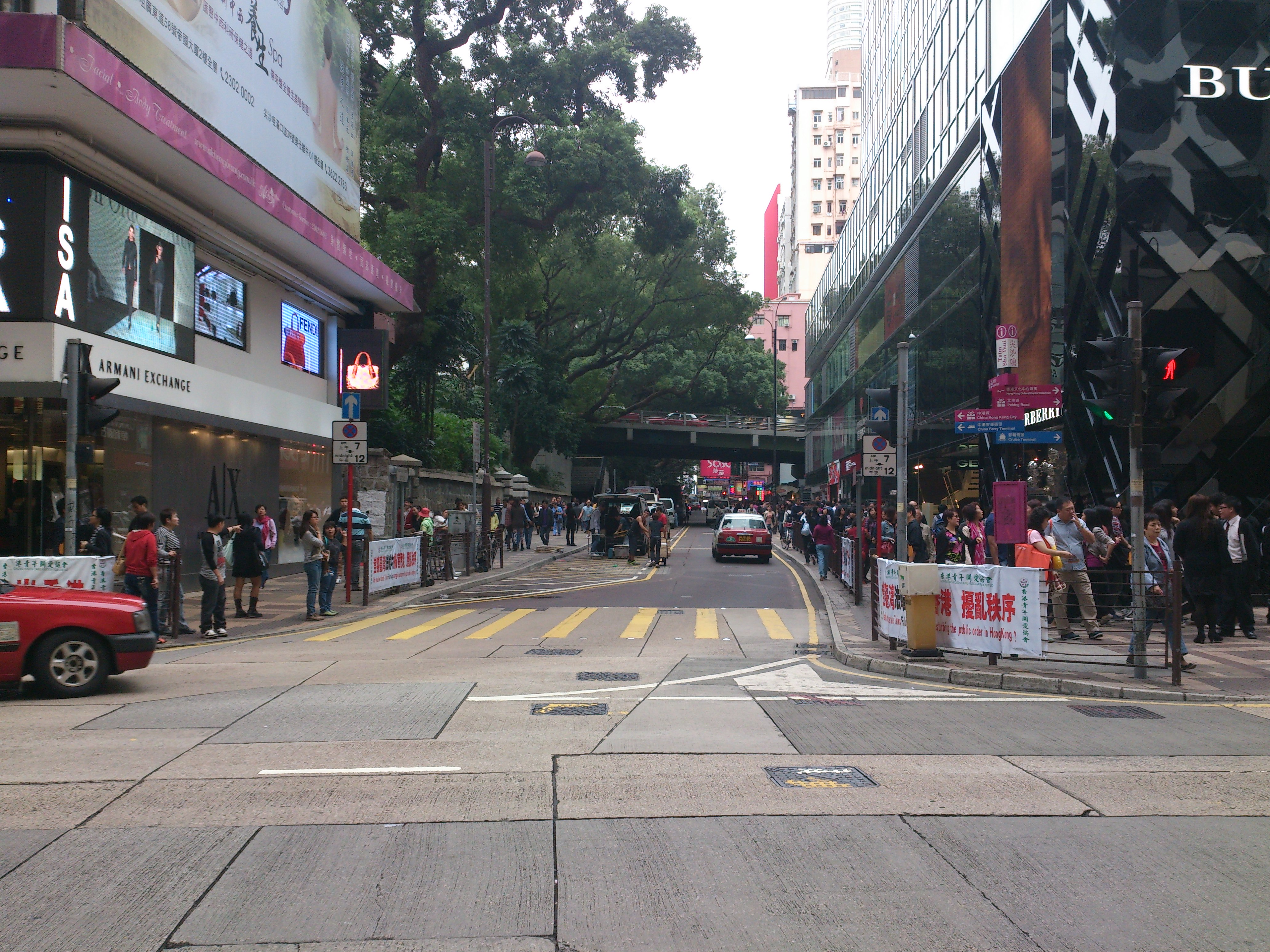 Haiphong Road near Canton Road